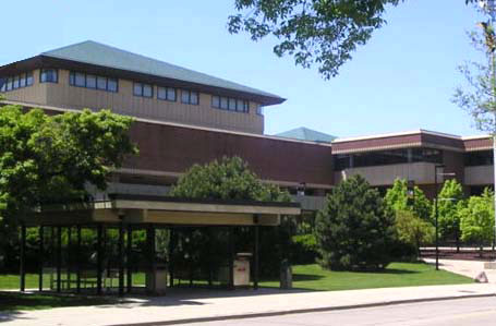 The Golda Meir Library (north side) at the University of Wisconsin-Milwaukee.